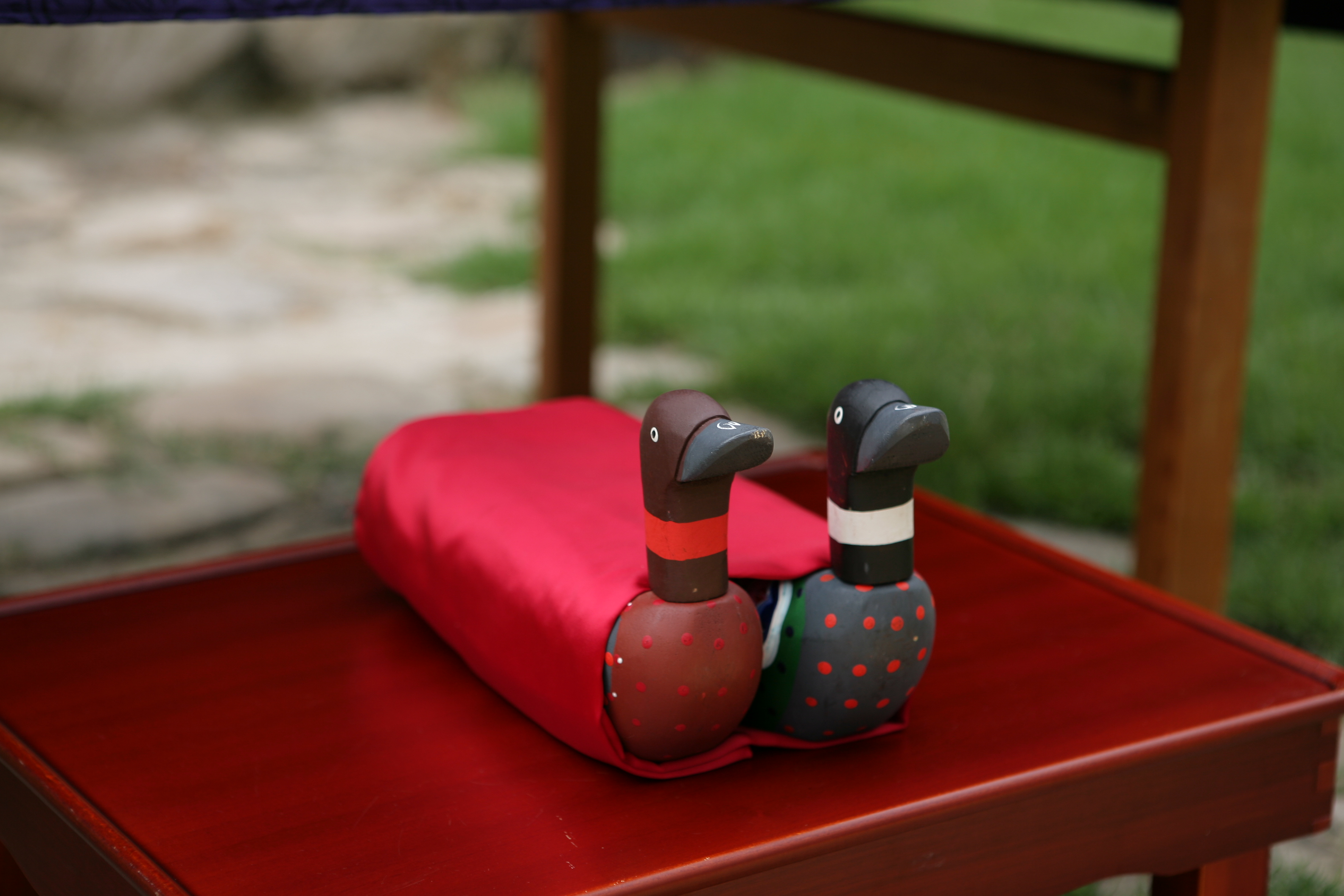 Korean wedding ducks wrapped in cloth for a traditional wedding ceremony